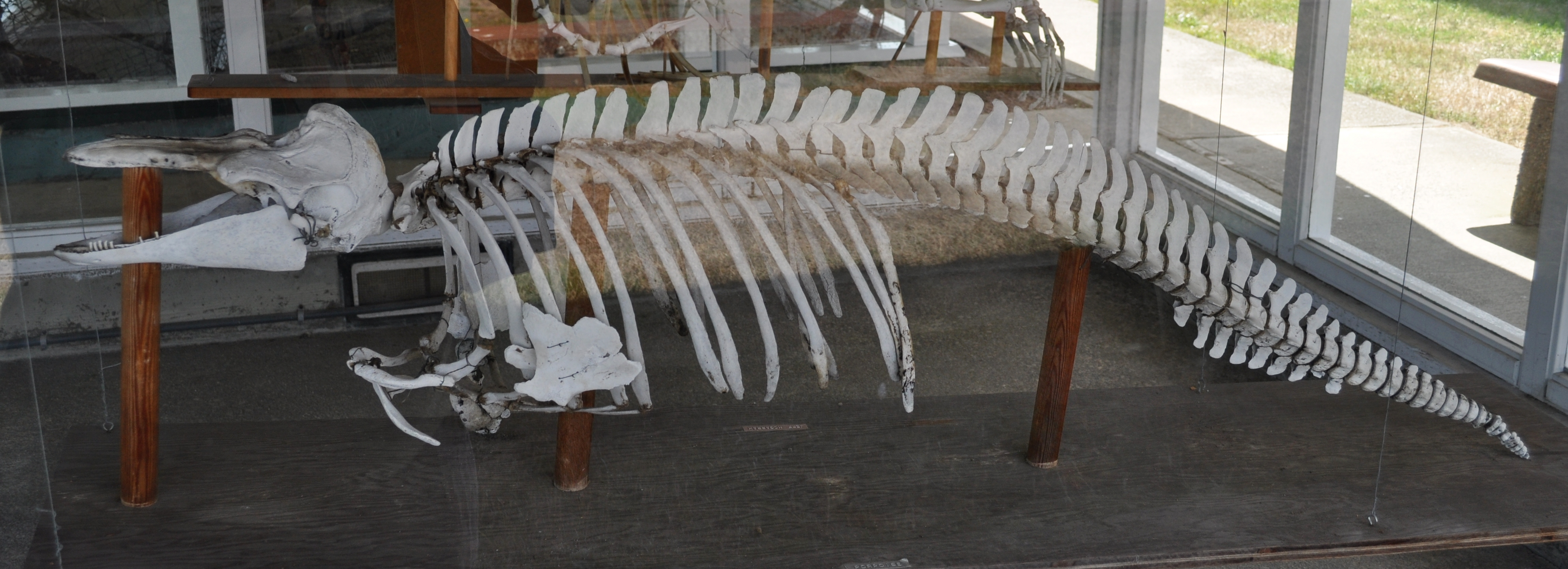 Skeleton of Harbor Porpoise (Phocoena phocoena), Maritime Museum Westport, Washington. Shot through window of glass-sided marine mammal building.